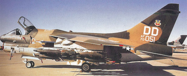 40th Tactical Fighter Squadron A-7D Corsair II 70-1051 1972: Aircraft delivered to 355th Tactical Fighter Wing/40th TFS, Davis-Monthan AFB, AZ (C/N D-177) Transferred to 358th Tactical Fighter Squadron 1 Jun 1972 Written off after crash at Davis-Monthan AFB, AZ, 31 July, 1975